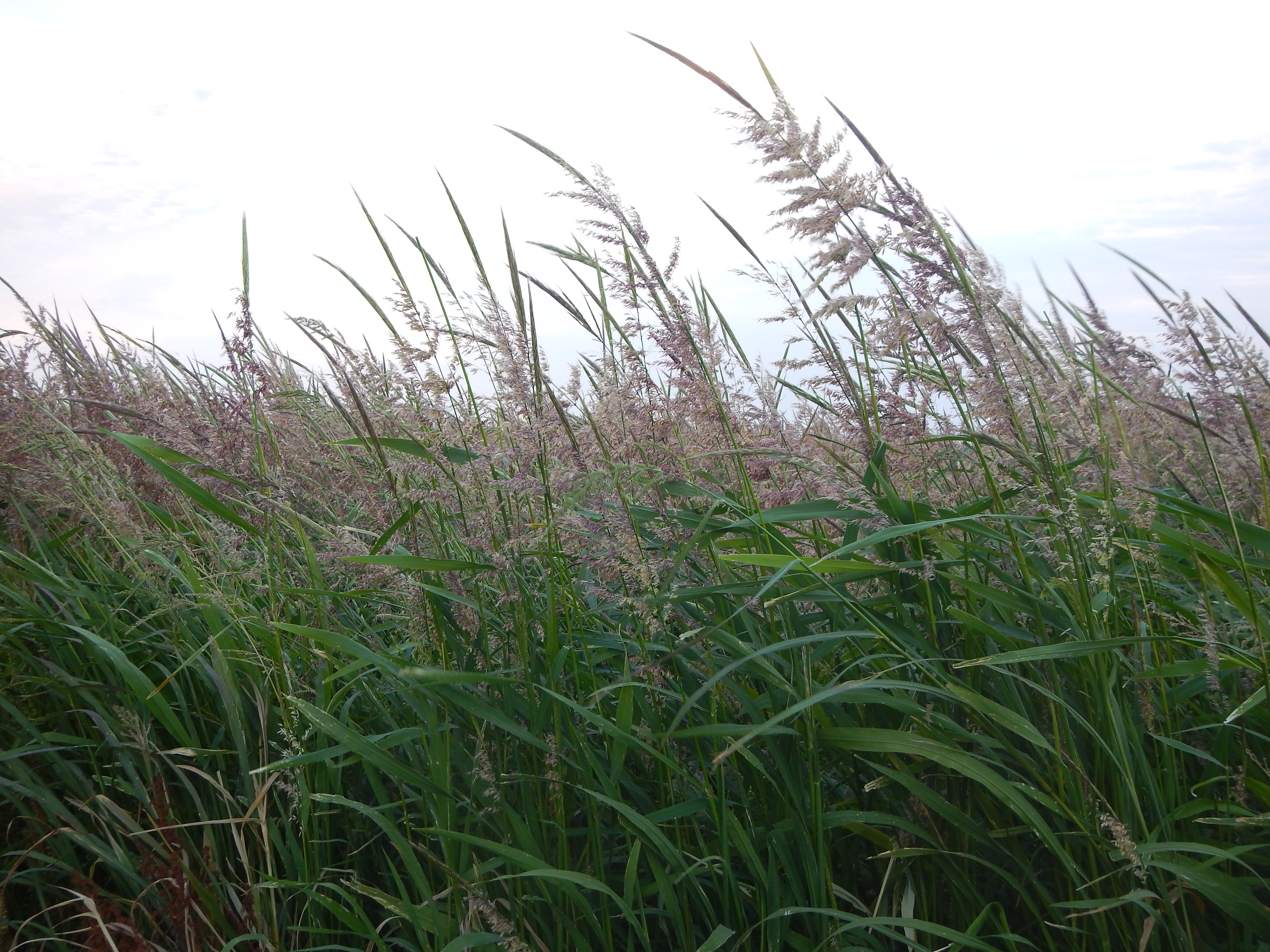 Northern wildrice is very commonly cultivated, along with cultivated rice, in the area of the wildlife preserve.